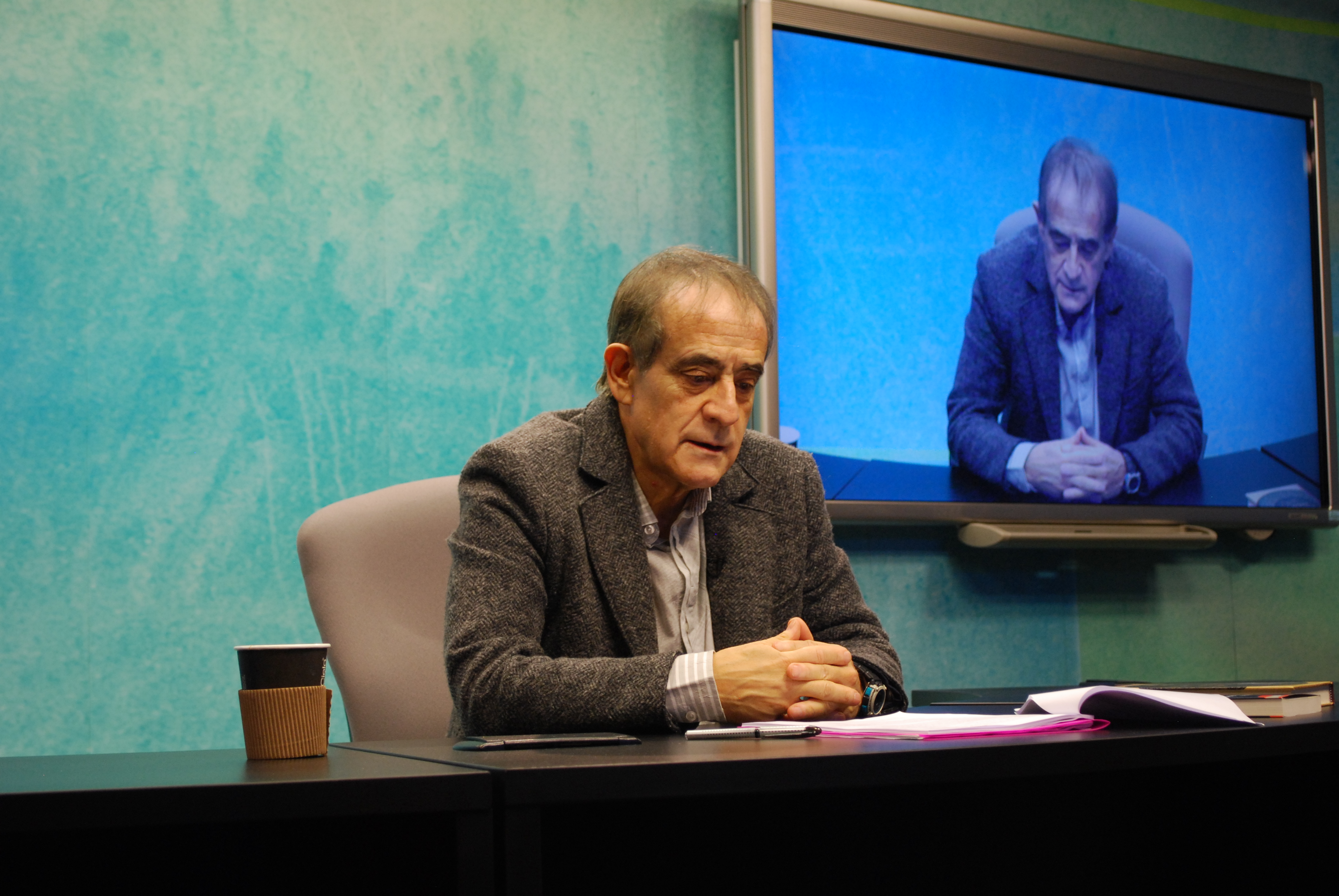 Javier Roiz during the seminar: La Sociedad Vigilante, at ITESM Campus Ciudad de México in Mexico City